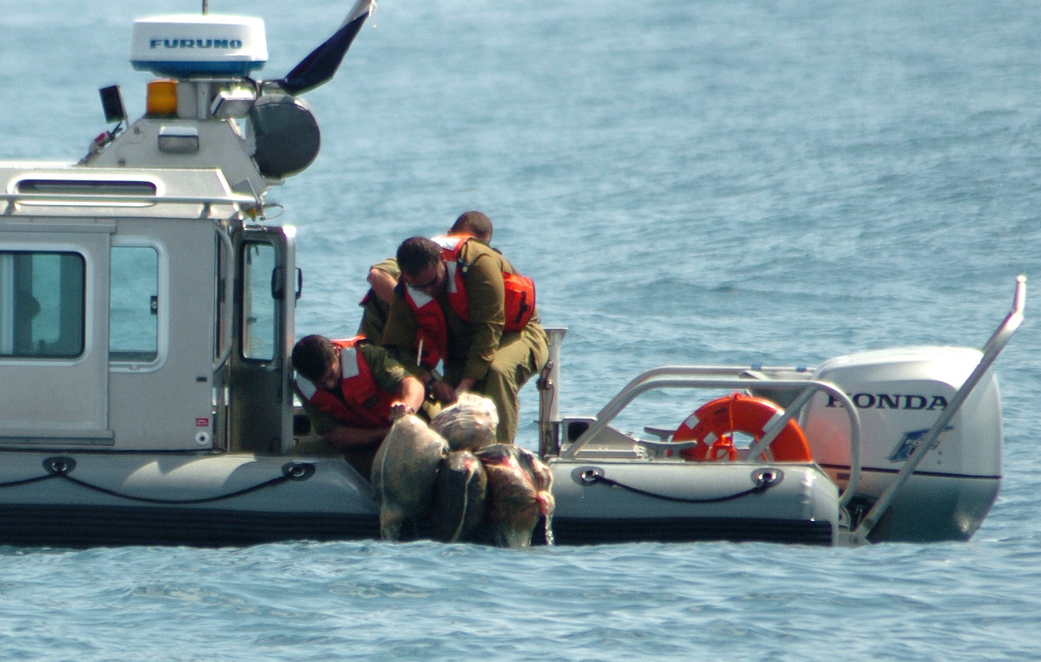 May 9, 2006 Israel Navy Forces removed 13 bags of explosive material from a boat that attempted to smuggle explosives into the Gaza Strip. Pictured: A captured boat filled with explosives.